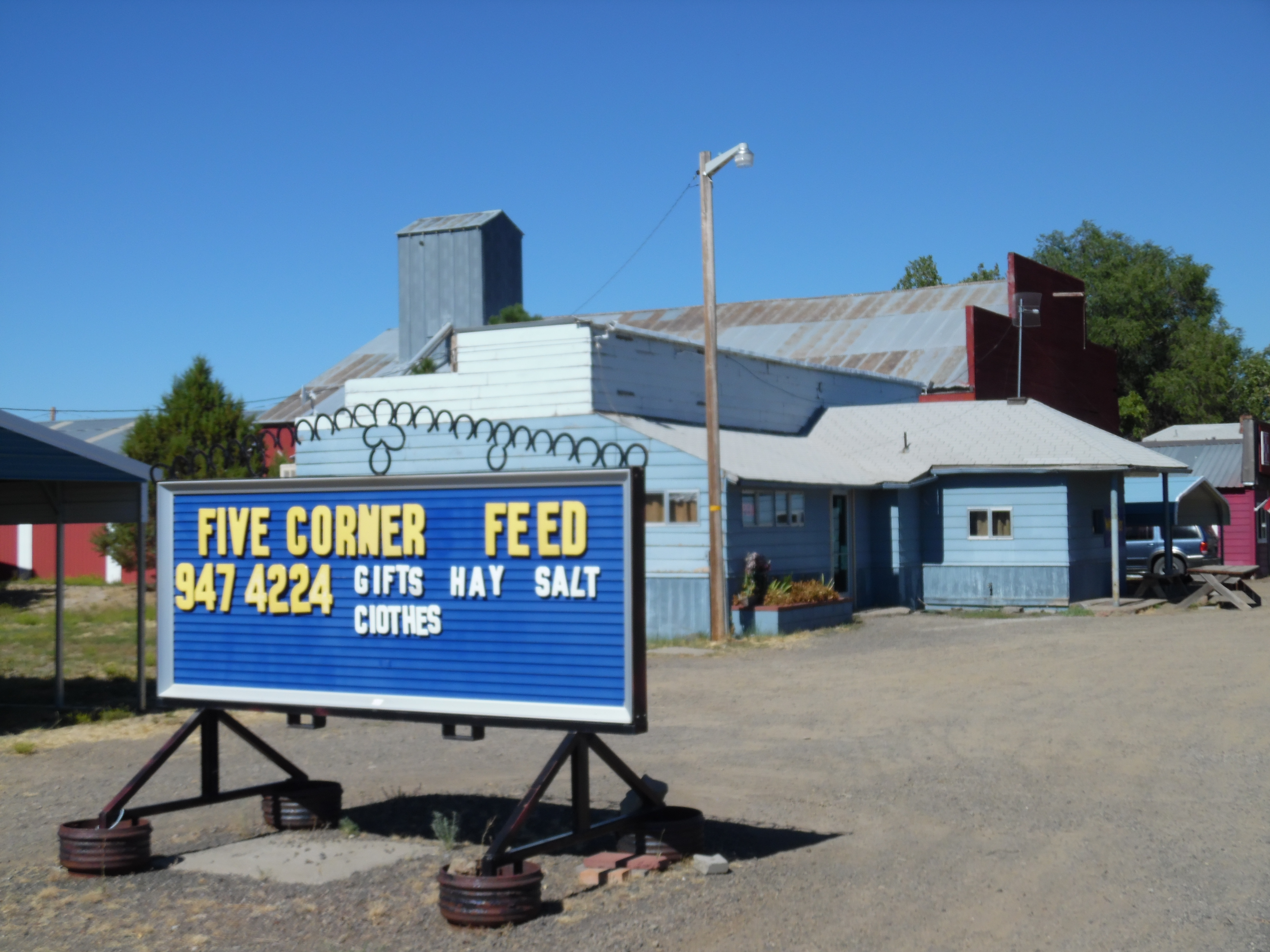 Feed store at the unincorporated crossroads of Five Corners, Oregon; 5 miles west of Lakeview along Oregon Route 140